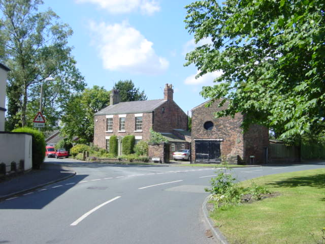 Holt Green House, Aughton. Holt Green House, at the junction of Brookfield Lane and Smithy Lane, Holt green, Aughton.